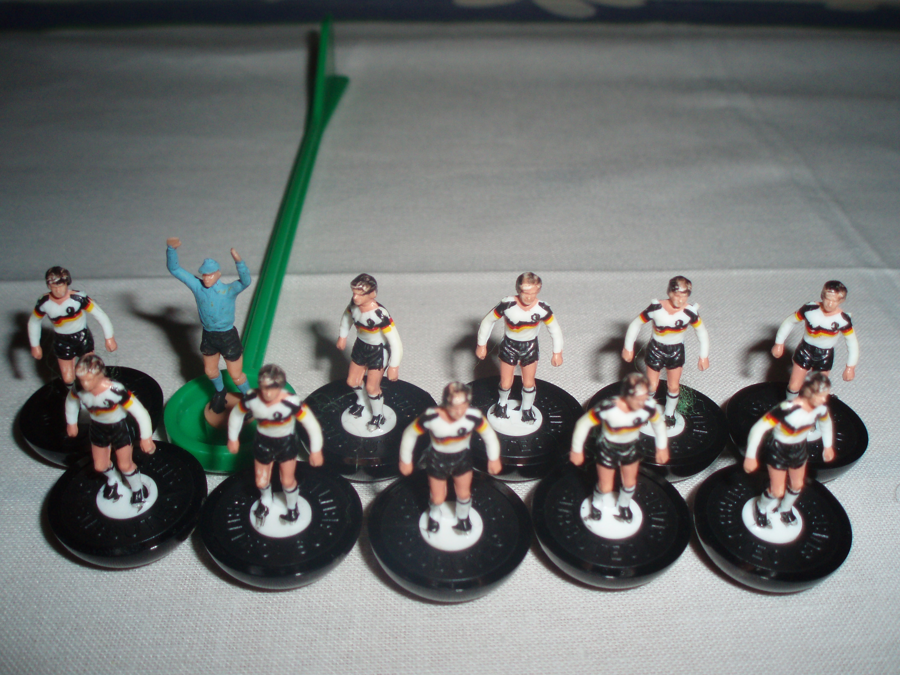 Germany 1990 national football team subbuteo